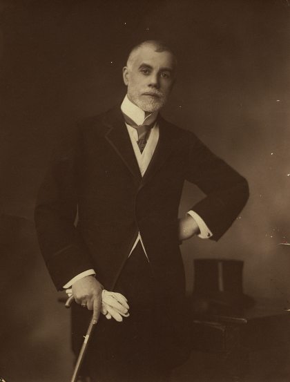 Manuel Teixeira Gomes (1860-1941), President of the Portuguese Republic.